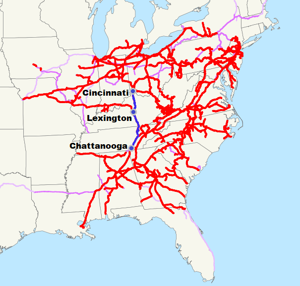 Norfolk Southern Railway system map with the Cincinnati Southern Railway in blue (Cincinnati, New Orleans and Texas Pacific Railway)